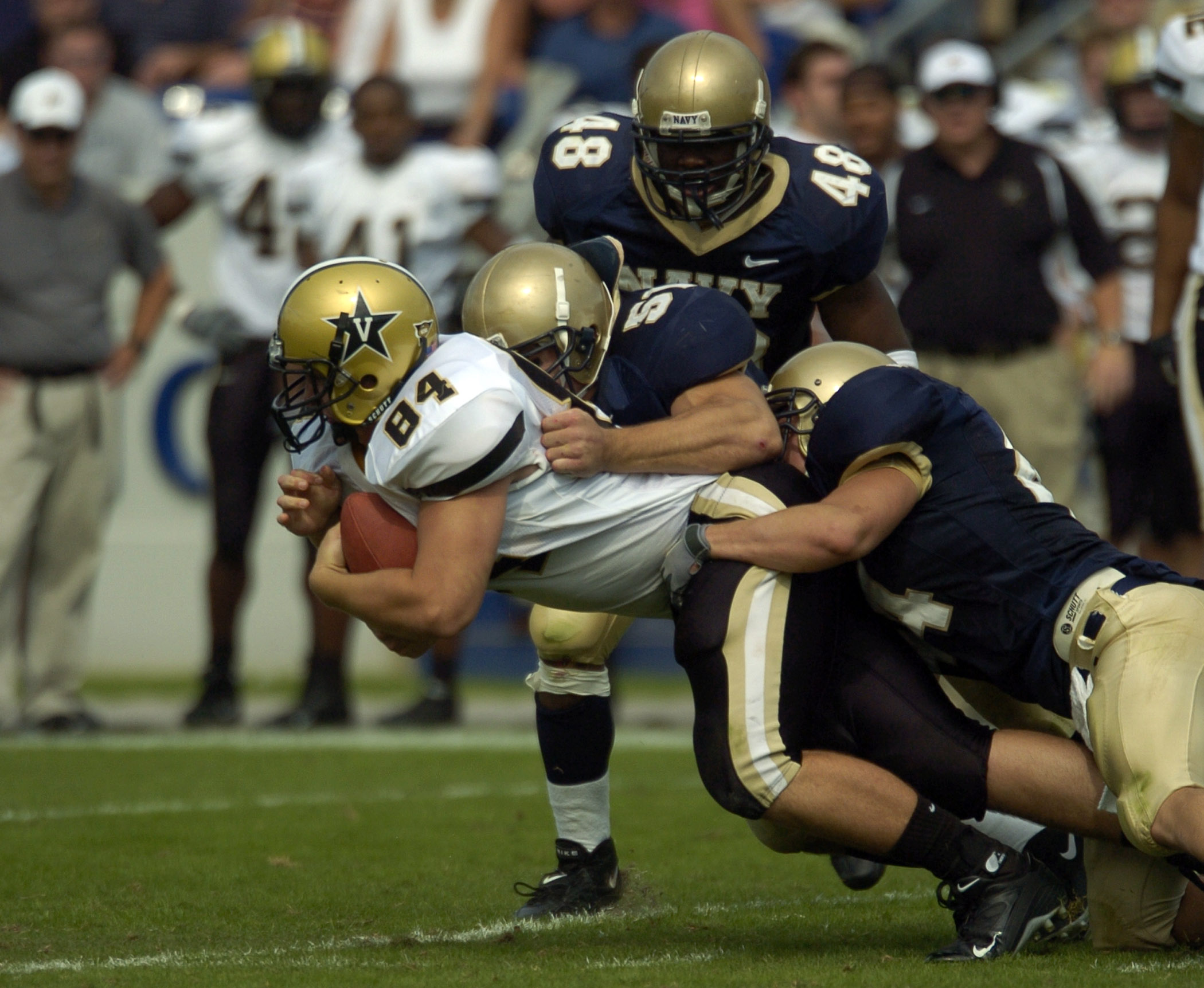 Vanderbilt tight end Dustin Dunnning is tackled by U.S. Naval Academy Midshipmen Bobby McLarin, center, and Lane Jackson, right.